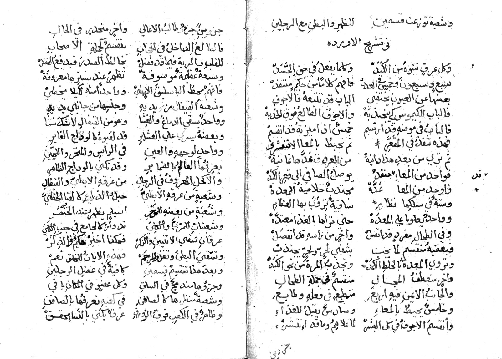 Text: contains the title "Veins" Asian Collection Keywords: anatomy, arabic; Avicenna